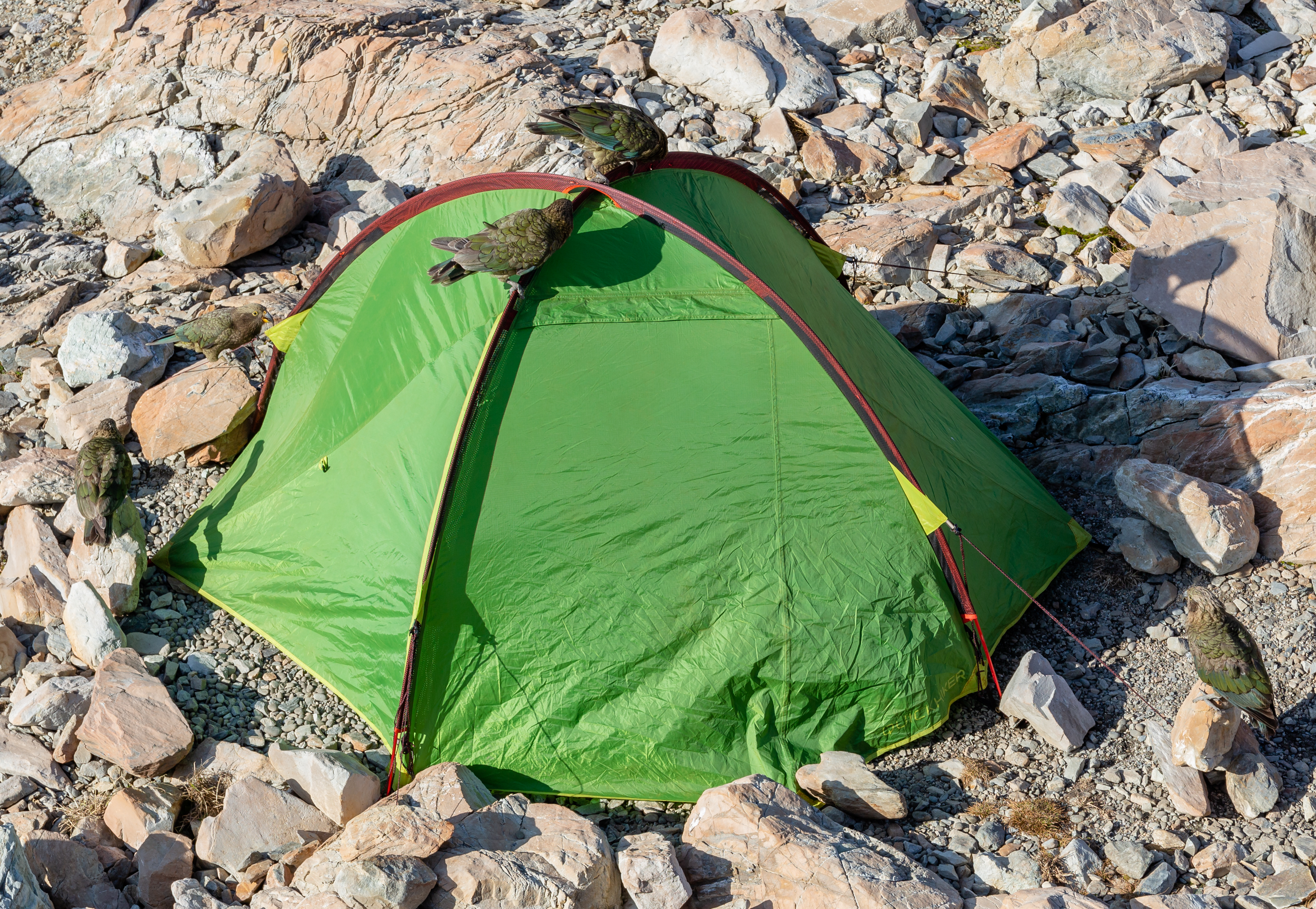 A green tent attacked by kea, Aoraki/Mount Cook National Park, New Zealand